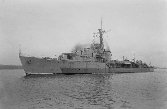 Photograph of British C class destroyer HMS Chaplet, on completion.